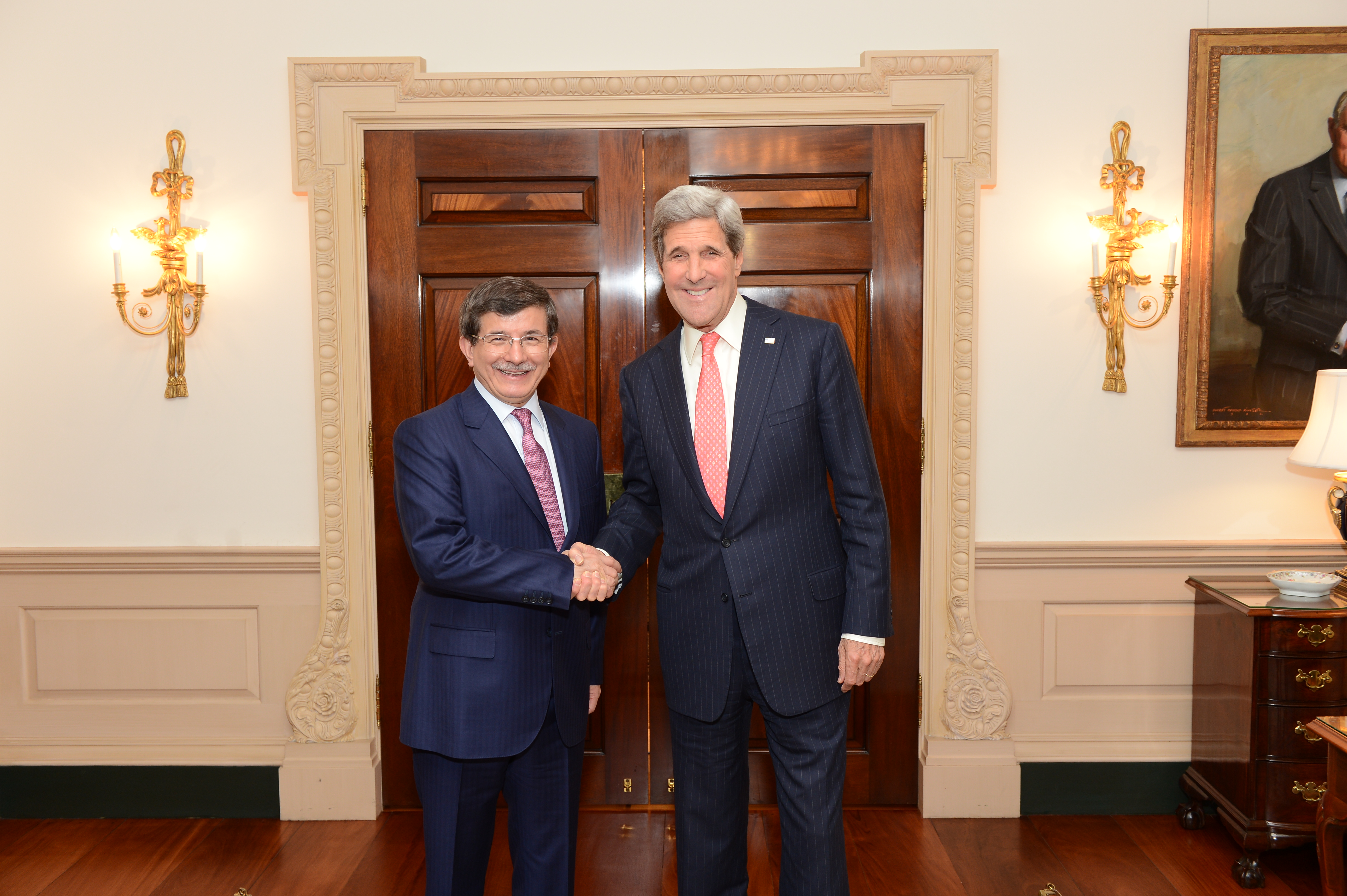 U.S. Secretary of State John Kerry meets with Turkish Foreign Minister Ahmet Davutoglu at the U.S. Department of State in Washington, D.C., on May 16, 2013. [State Department photo/ Public Domain]